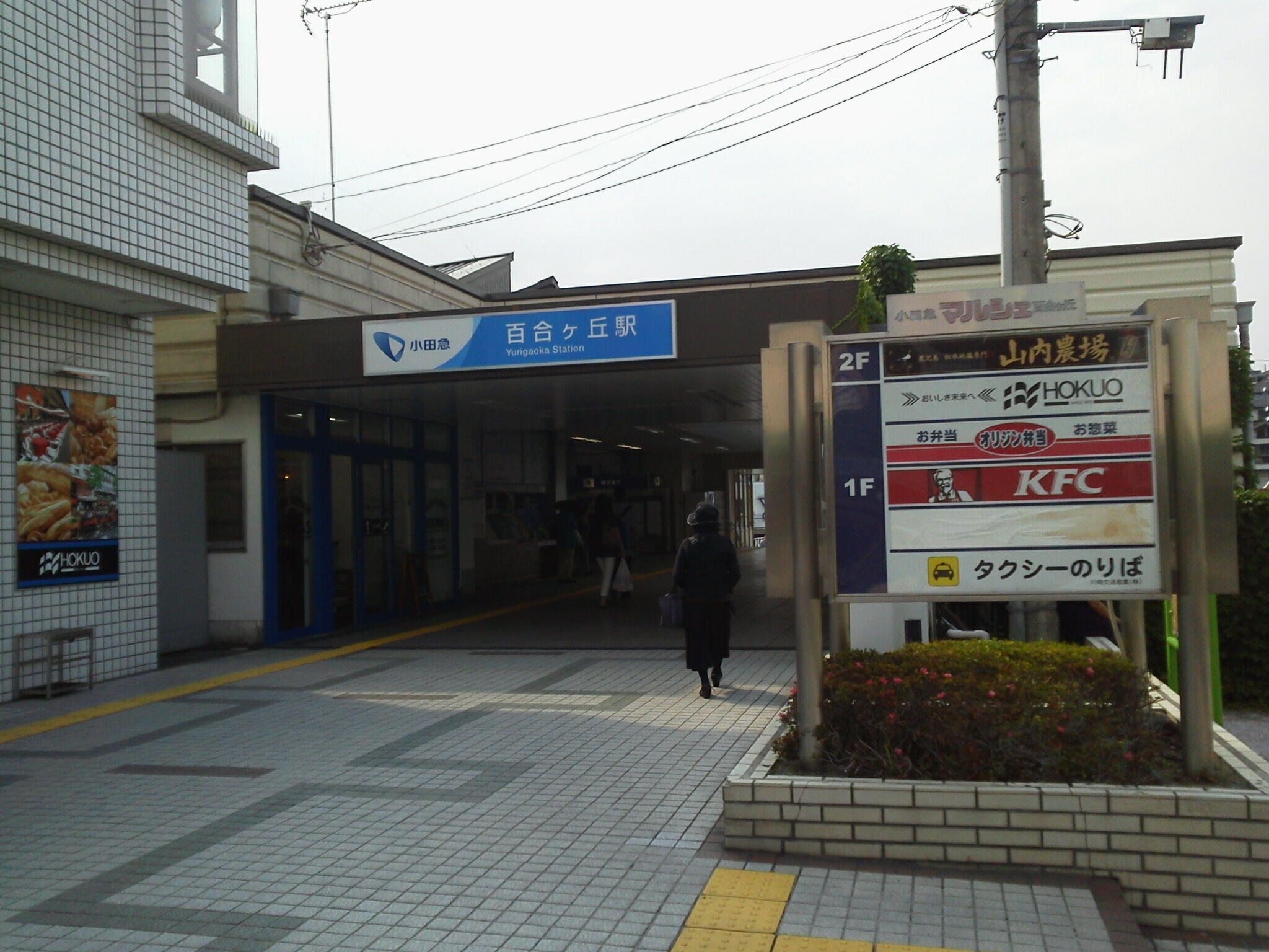 Odakyu Odawara Line Yurigaoka Station South Exit in June 23, 2014.Asao-ku, Kawasaki-shi, Kanagawa, Japan.